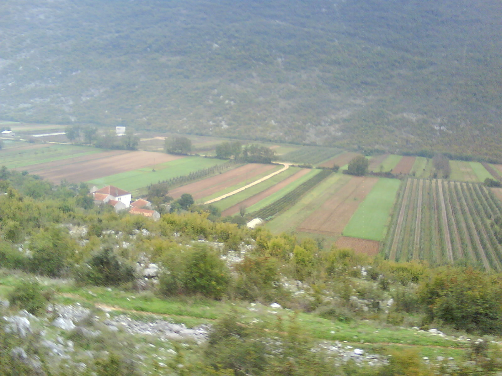 'Ljubinje (polje), eastern Herzegovina